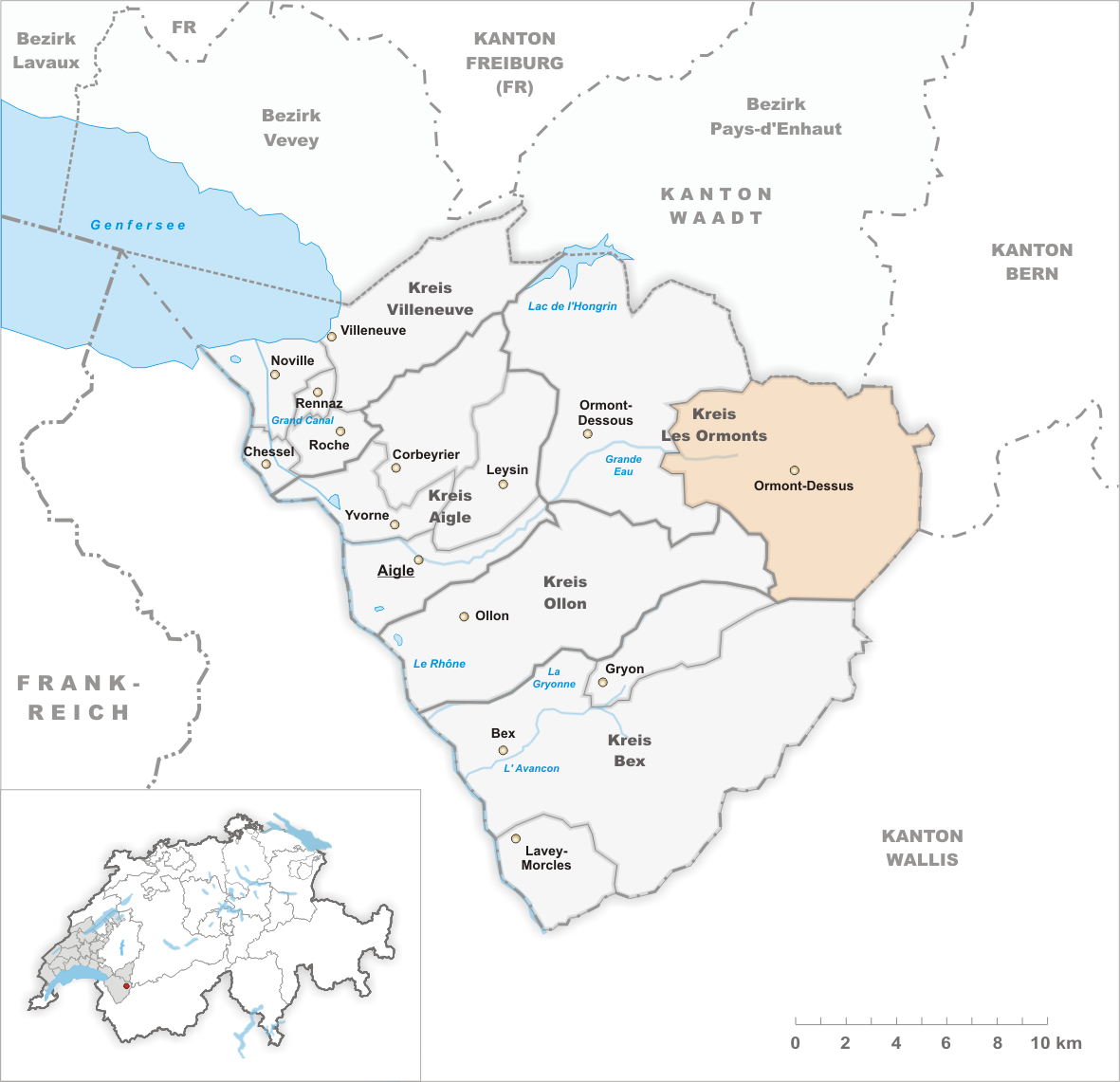 Municipality Ormont-Dessus